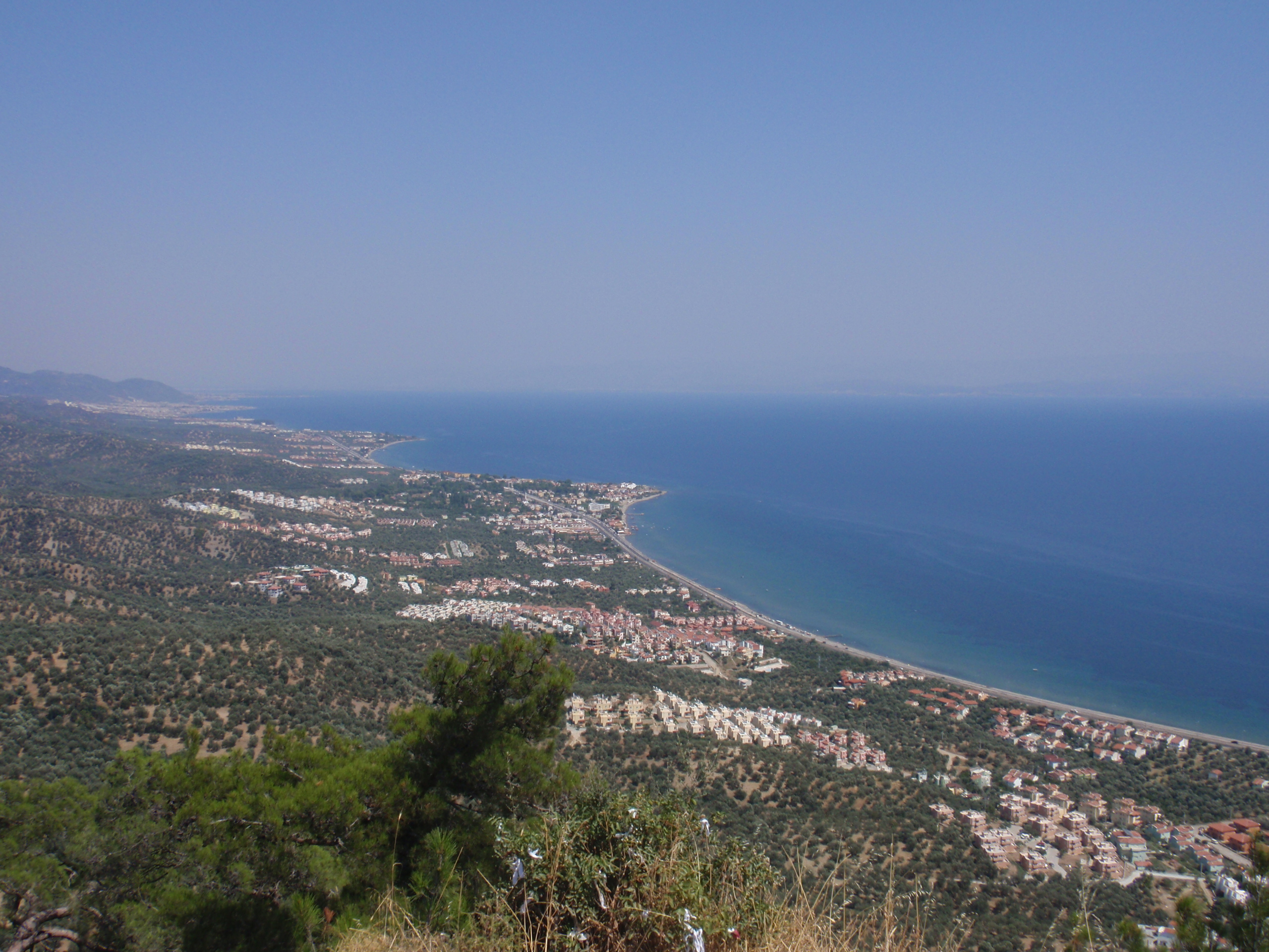 near in Adatepe, Çanakkale.